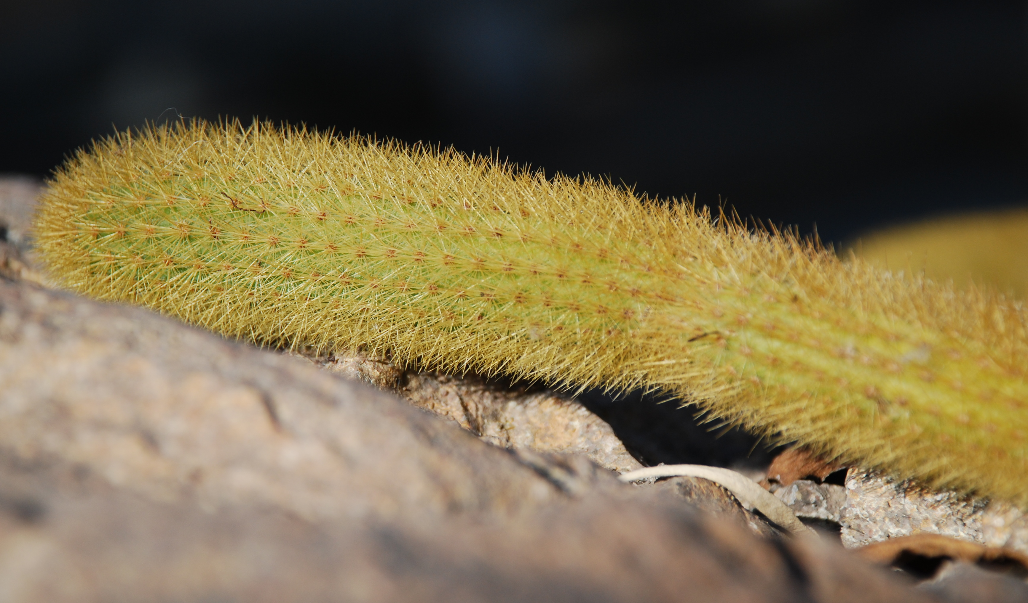 Up-close picture of cleistocactus winteri located in the United States Botanical Garden